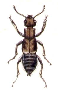 Dinothenarus fossor, from Calwer's Käferbuch, Table 11, Picture 29. Taxonomy was updated to 2008, using mostly the sites Fauna Europaea and BioLib. Please contact Sarefo if the determination is wrong!